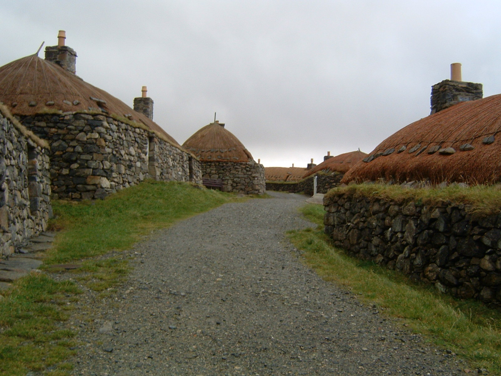 Photograph of black house village in Garenin, Carloway, Lewis.